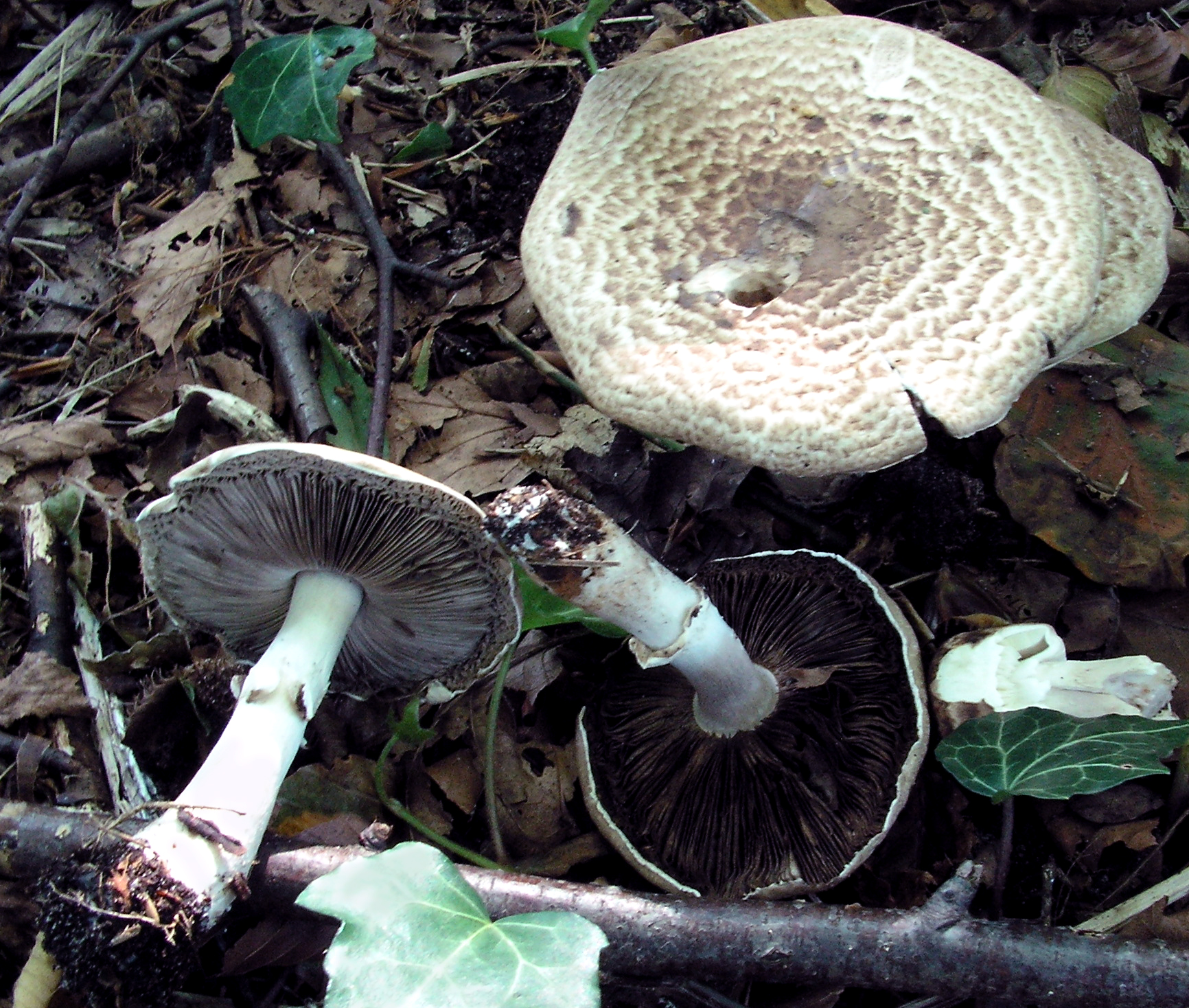 Agaricus impudicus Note the little specimen to the right showing the flesh exposed - the lack of reddening distinguishes this species from A. Haemorrhoidarius and similar forest-growing Agaricus species. Photo By Jens Buurgaard Nielsen Location: The Hague, Netherlands Date: September 9 2006